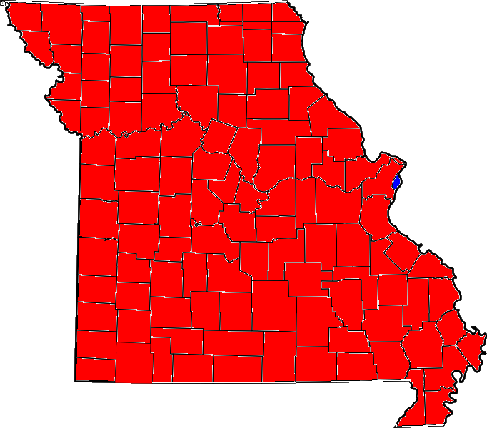 1994 Missouri Senate election results by county.